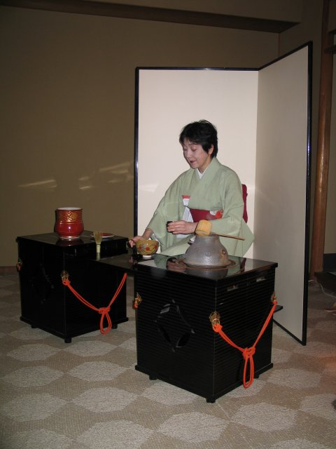 Performing the tea ceremony.